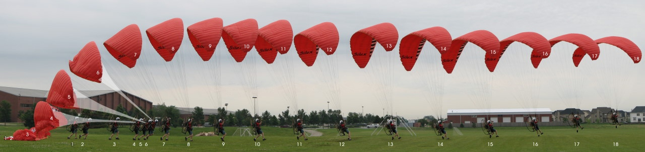 Launch of a powered paraglider shown in steps.